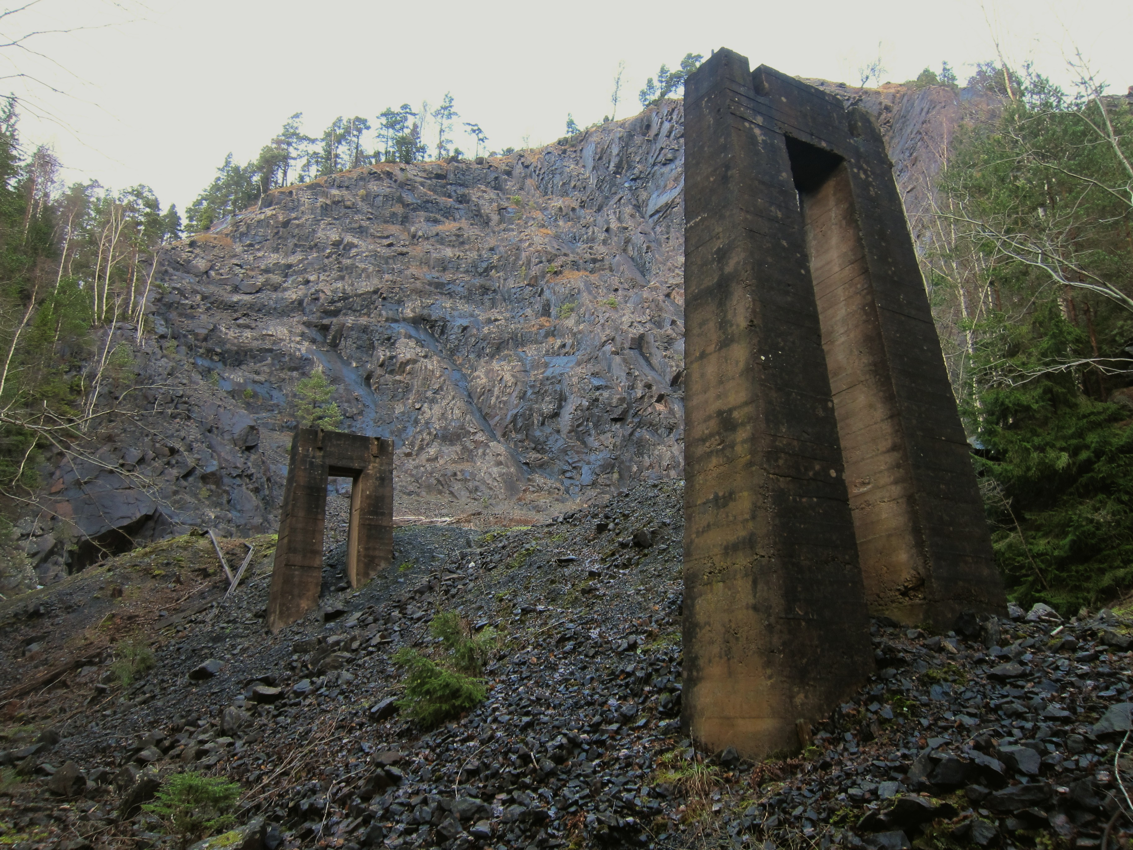 Tabergsgruvan. Old mining place.